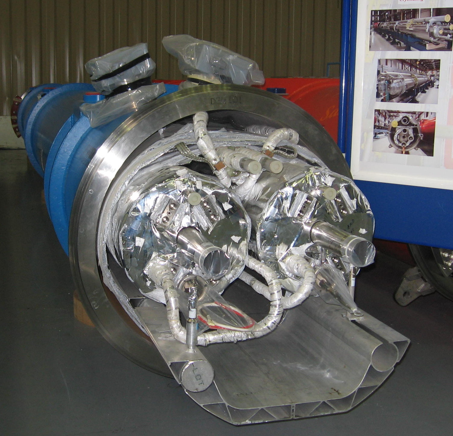 Image of a part of the CERN Magnet Factory (Building 181; P1 Meyrin). Here, the bi- and quadropole-Magnets for the Large Hydron Collider (LHC) of the European Organization for Nuclear Research ((French: Organisation européenne pour la recherche nucléaire), known as CERN) are produced. The image shows a quadropole-magnet.